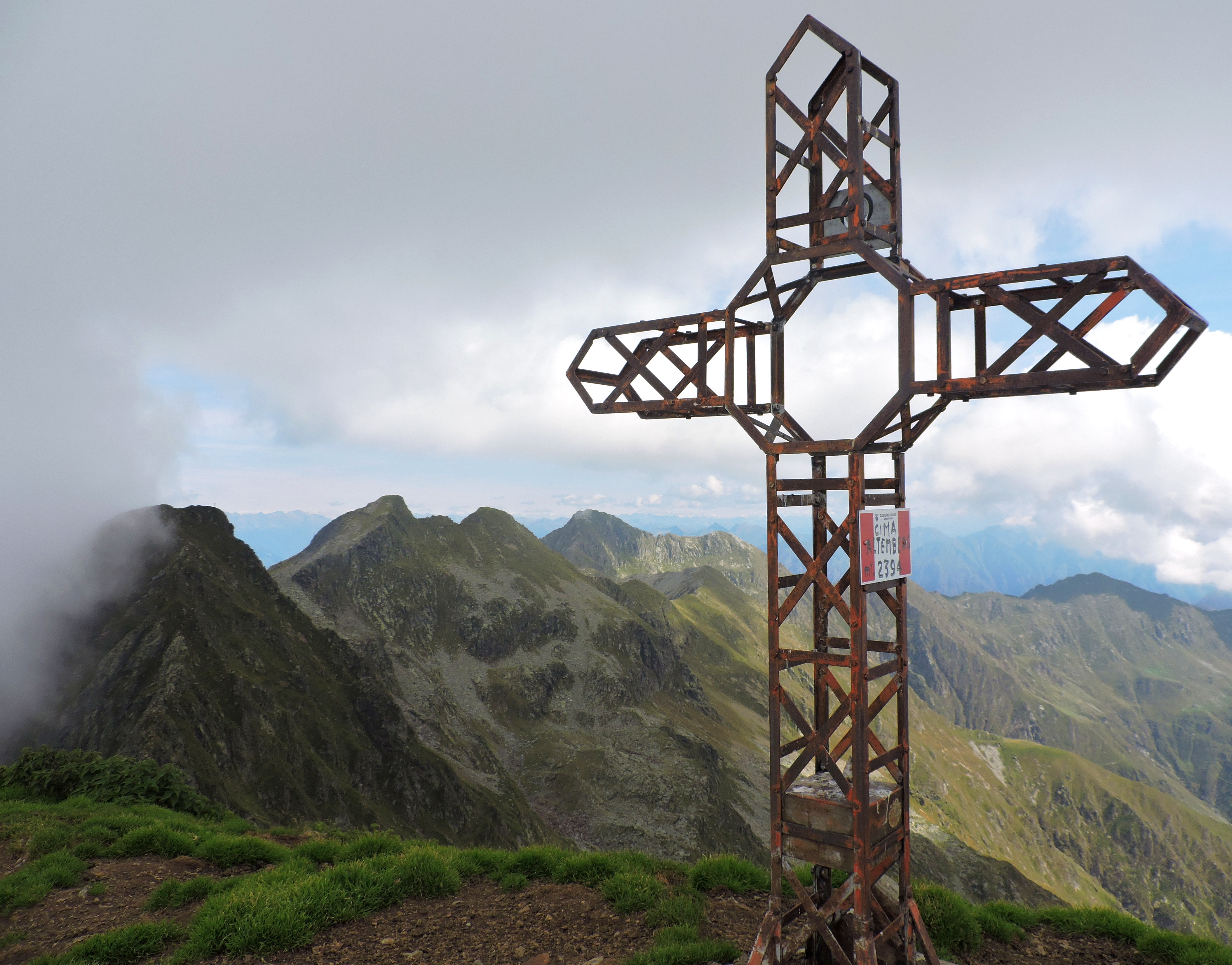 Altemberg (Pennine Alps, Italy): summit cross; on the background Cima Lago, Monunt Capezzone and Cima Ronda